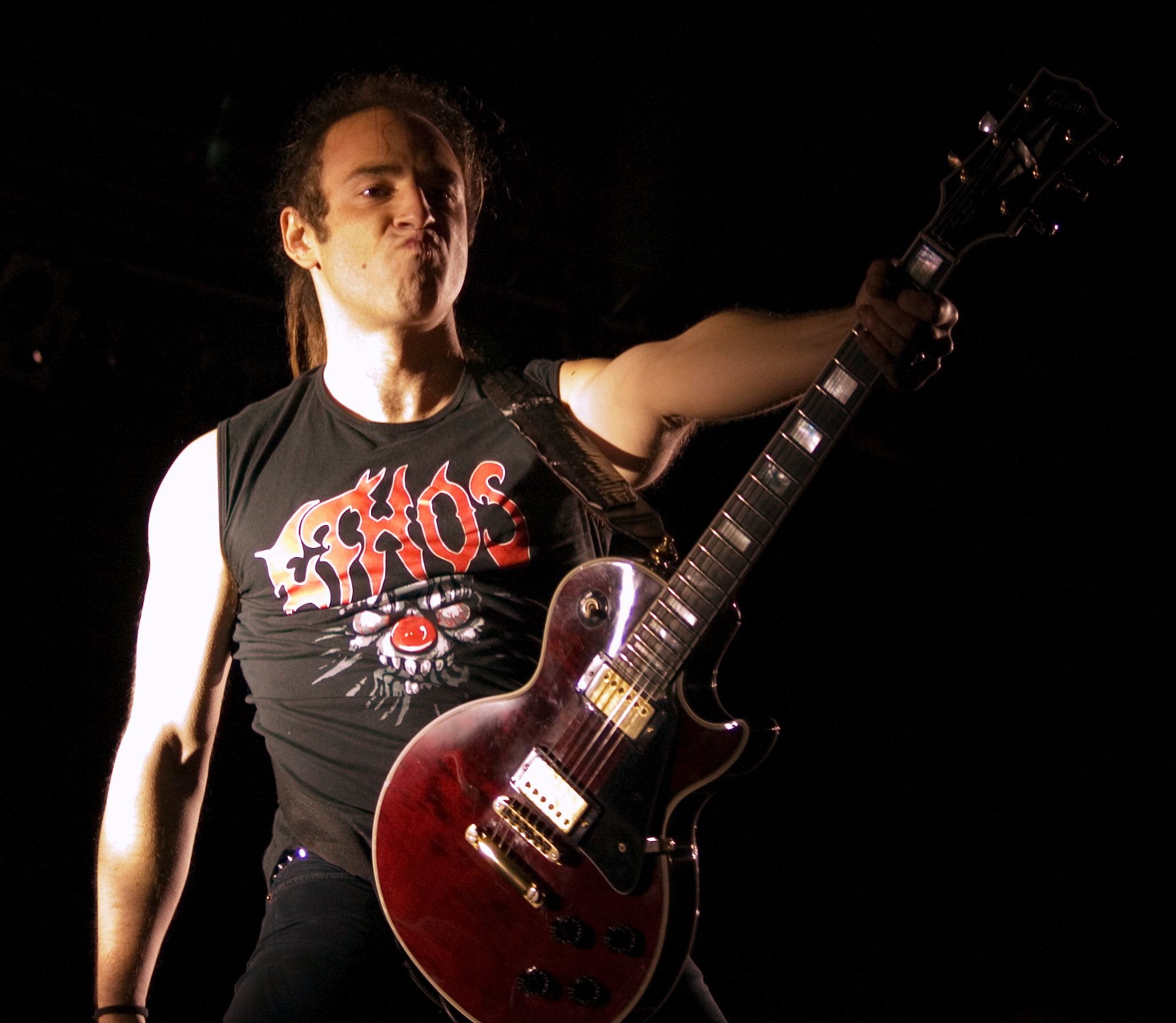 Vocalist of Su ta Gar band.